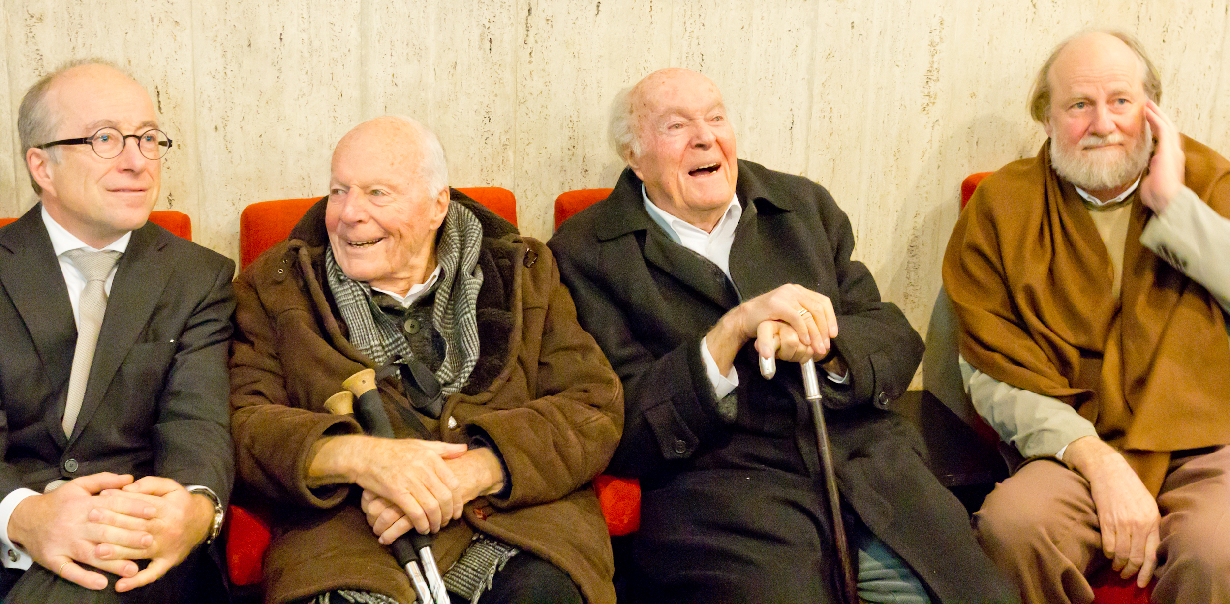 German architects Paul Böhm, Gottfried Böhm, his older brother Paul Böhm (*1918) and Stephan Böhm at the movie premiere of „Die Böhms – Architektur einer Familie“ in Cologne, Germany.